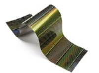 Mit Kupfer Indium Gallium Diselenid bedampfte Polymerfolien